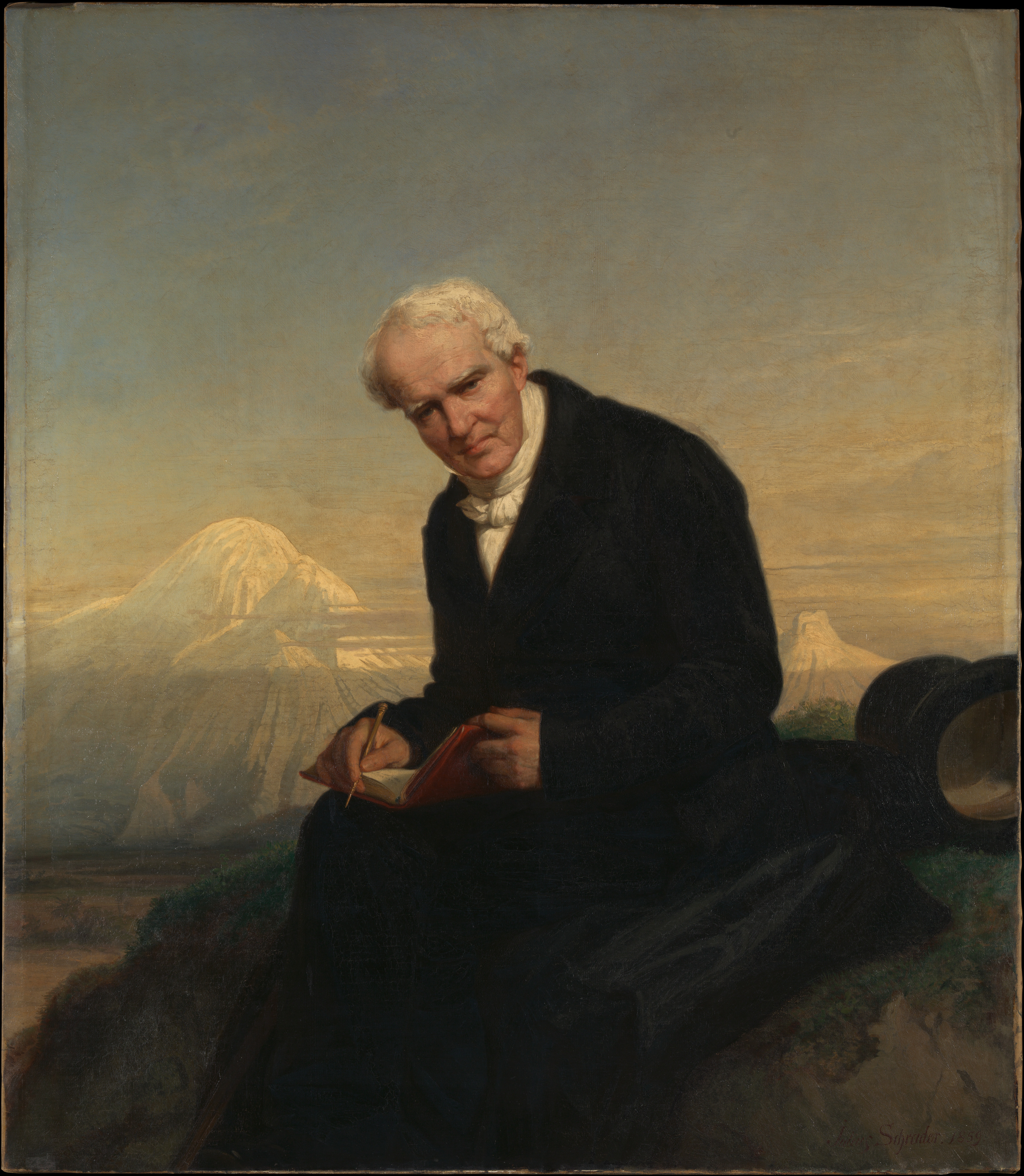 Depicted person: Alexander von Humboldt